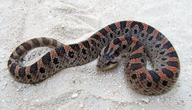 Adult H. Simus or Southern Hognose Snake